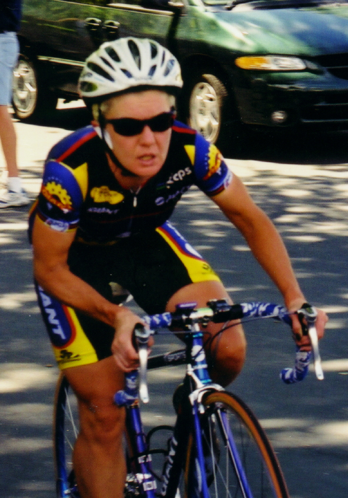 Kathy Watt just after leaving the starting gate during the Swan Falls to Melba Time Trial (1999 Women's Challenge).